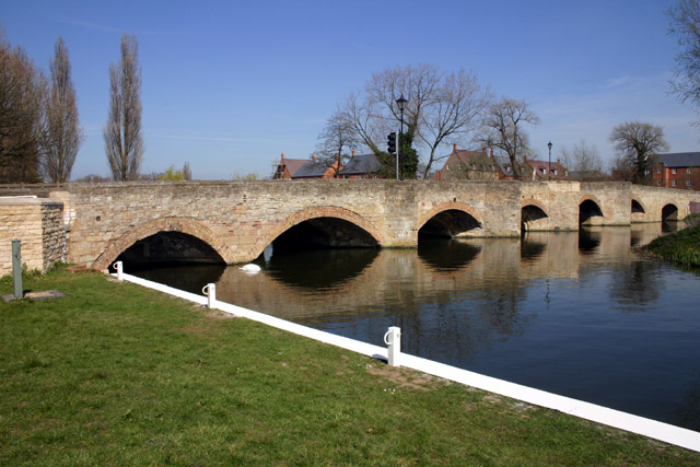 Nine Arch Bridge and mooring area on the River Nene at Thrapston, Northamptonshire